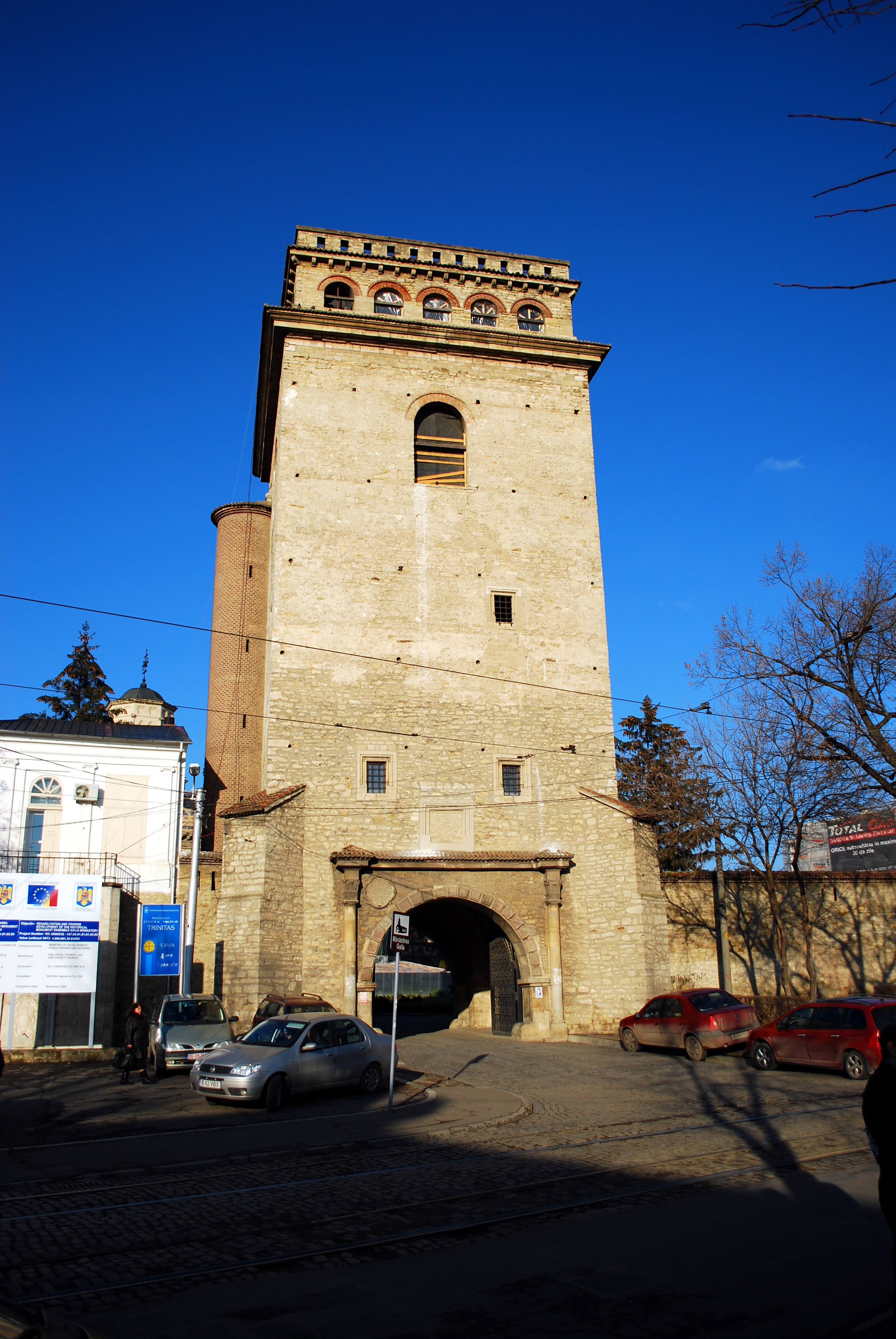 The bell tower of the Golia Monastery, Iaşi, Romania